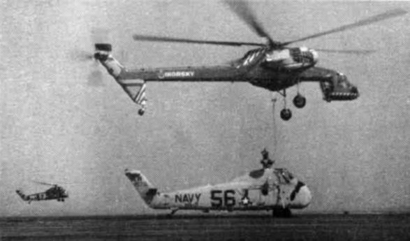 A Sikorsky S-60 helicopter delivering the rotors and detection gear of a U.S. Navy Sikorsky HSS-1 Seabat (SH-34) helicopter to Naval Air Station Quonset Point, Rhode Island (USA), in 1960. The HSS-1 had made an emergency landing at tiny Fox Island after experiencing engine trouble. The Sikorsky company offered to airlift the helicopter back to NAS Quonset Point using the S-60.